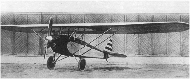 Yakovlev AIR-4 (1930)